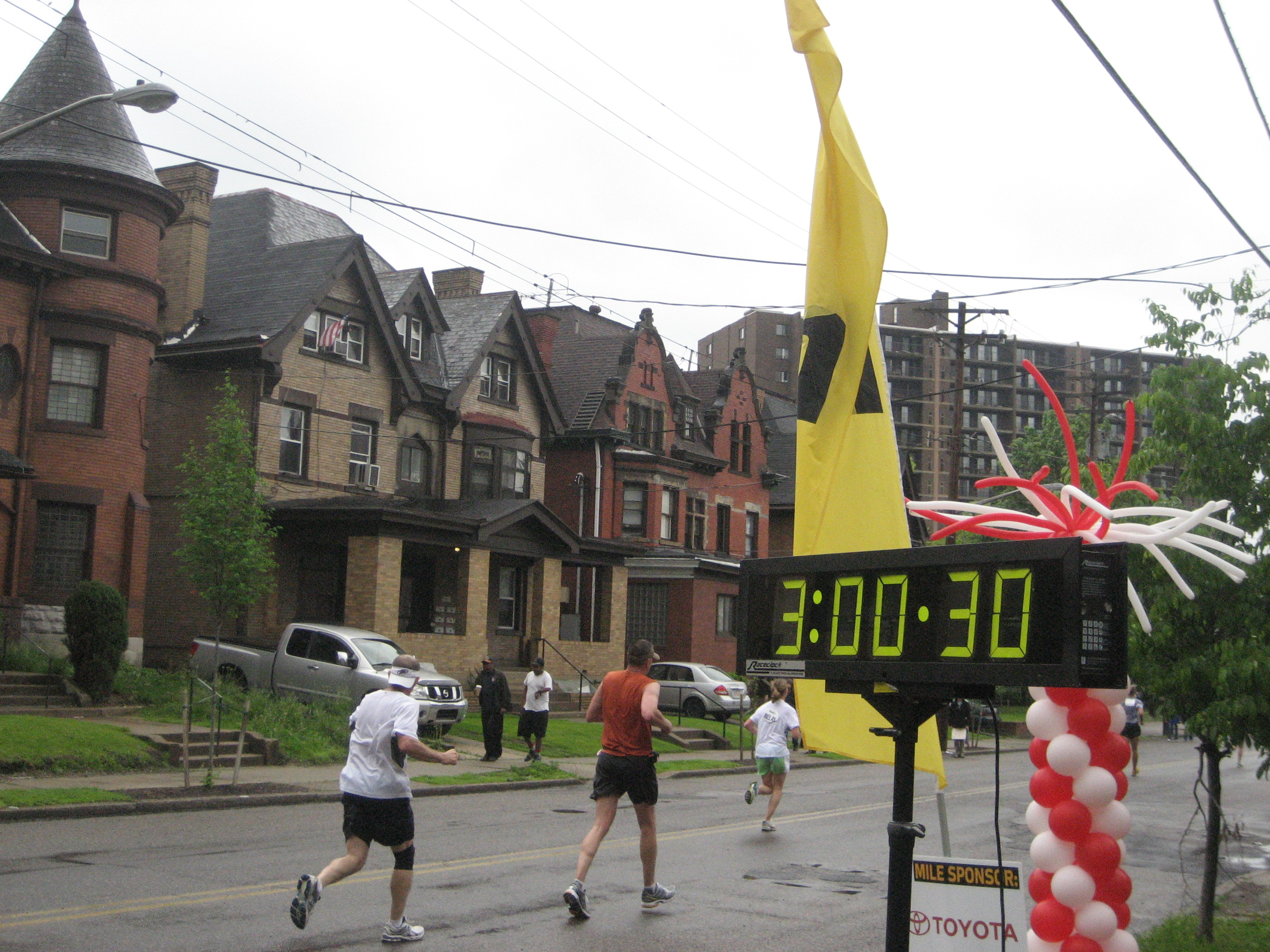 From the 2011 Pittsburgh Marathon, May 15.